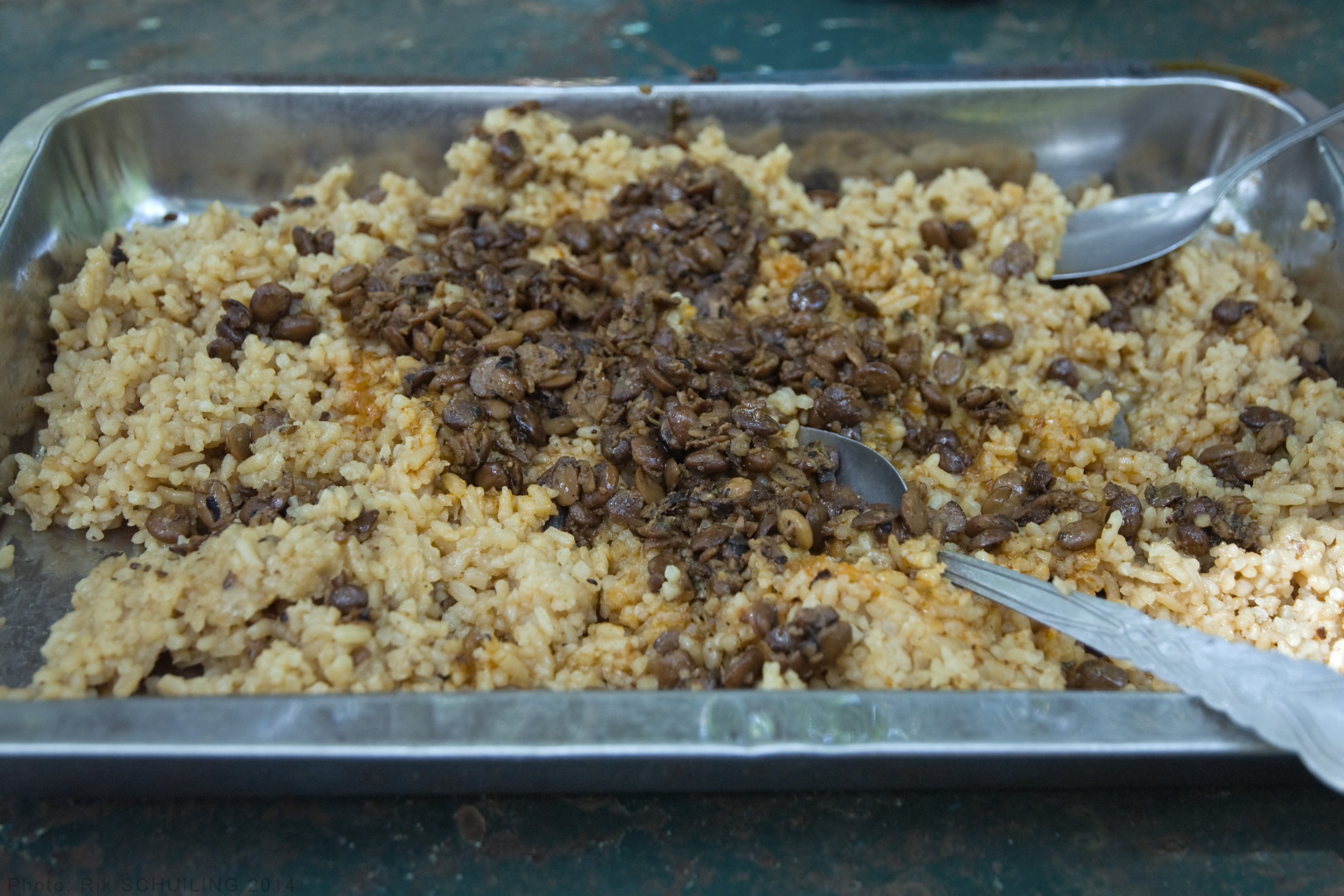 A dish of rice with sumbala (Bama, western Burkina Faso, February 2014).